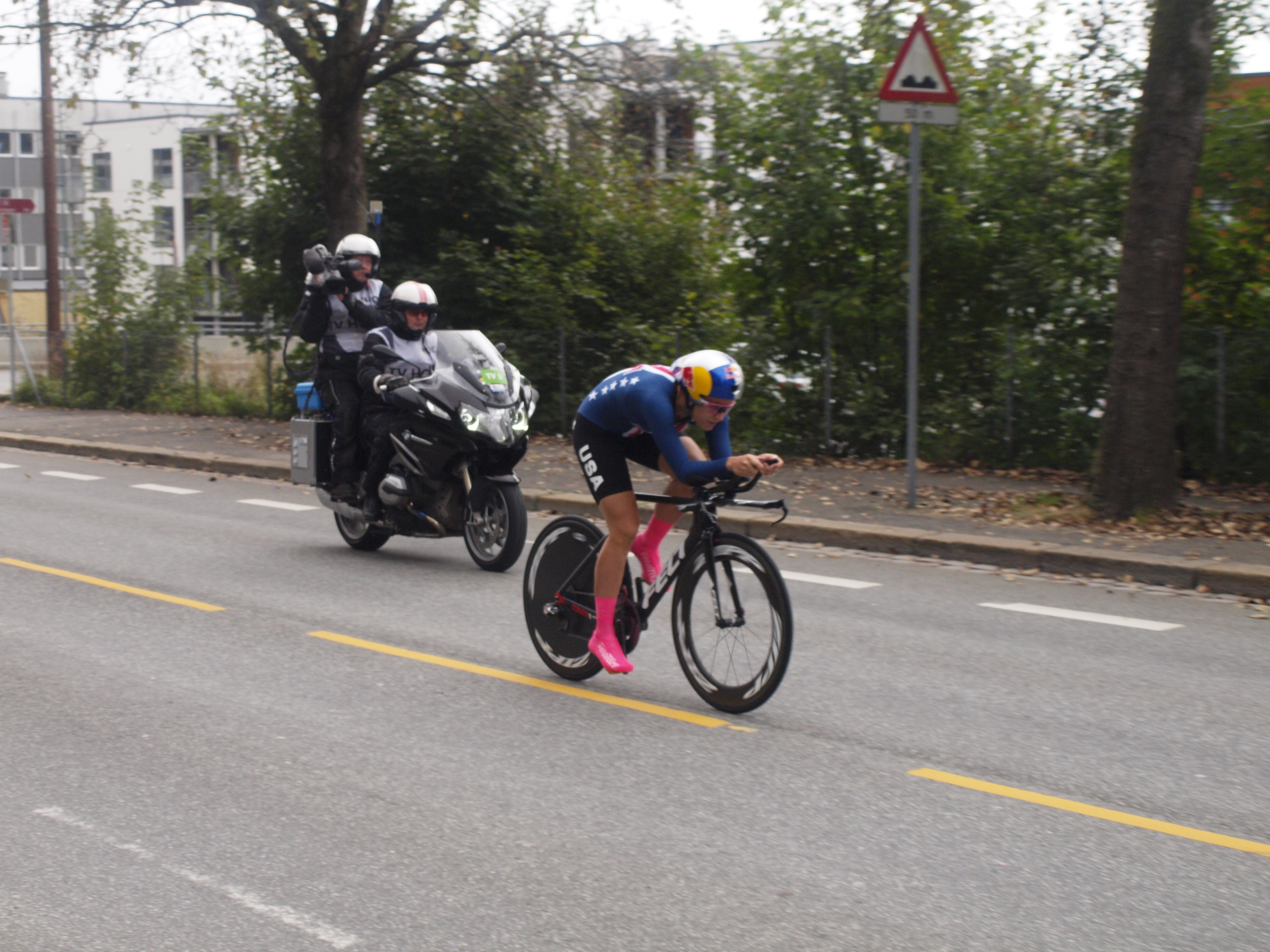 Chloe Dygert at the 2017 UCI World Championships